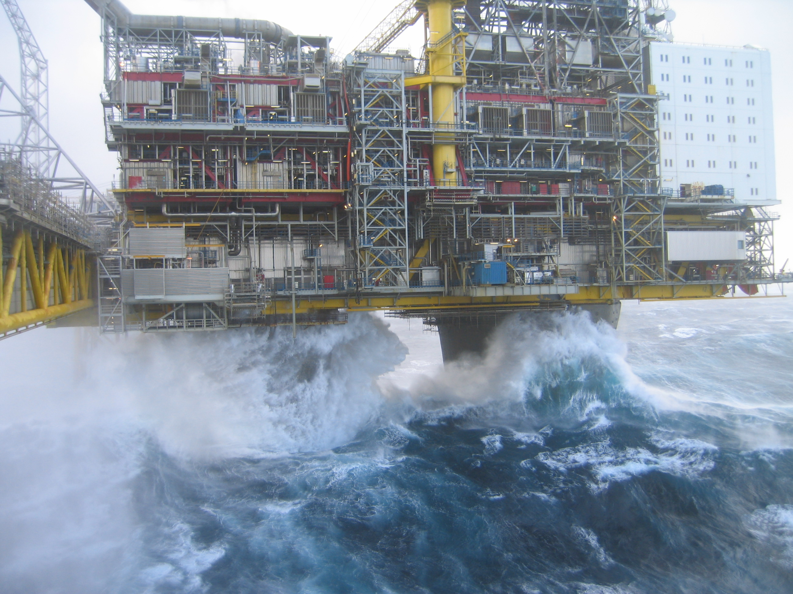 The Oseberg A Condeep platform in the North Sea.